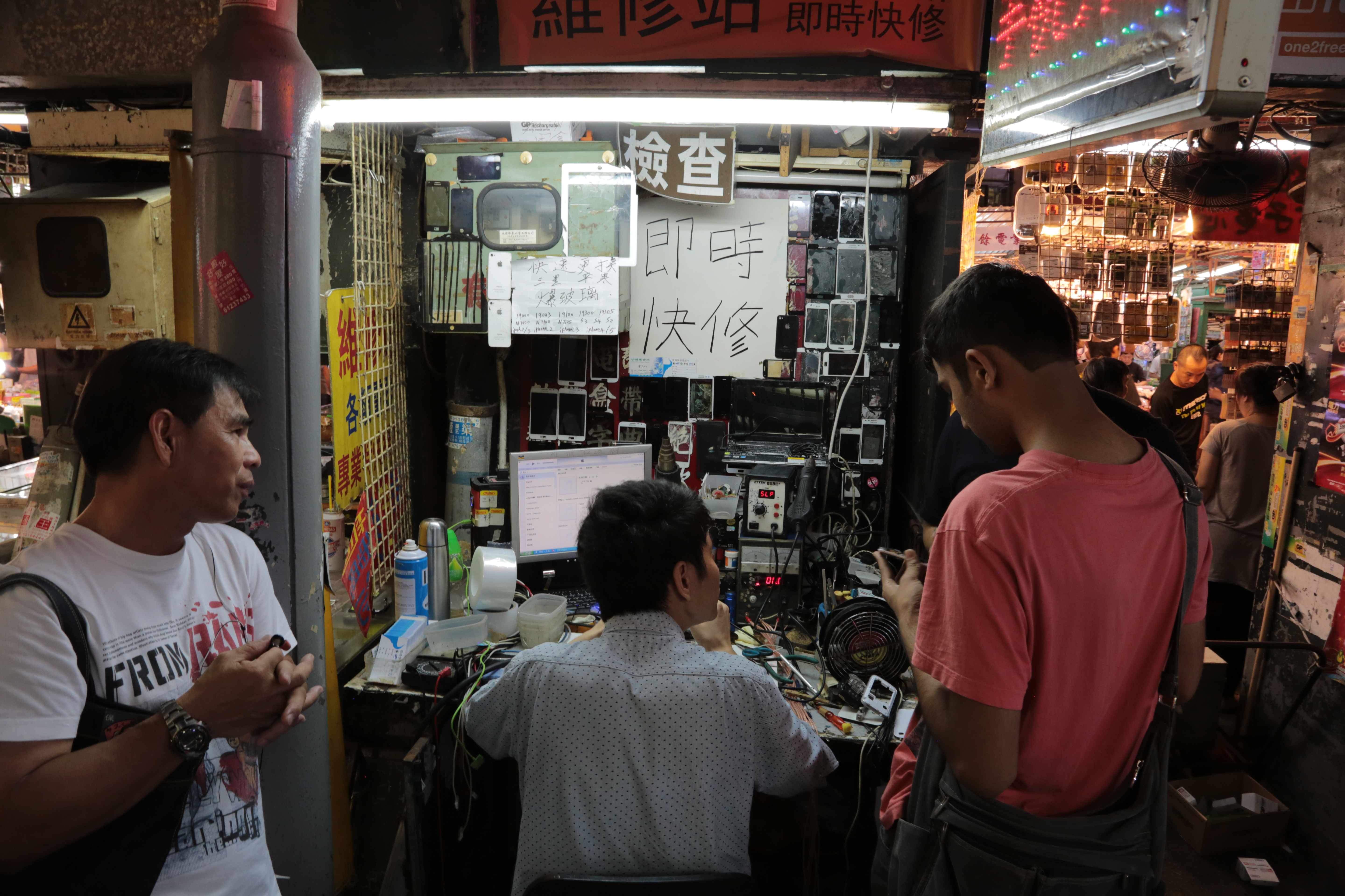 Sidewalk electronics repair in Hong Kong